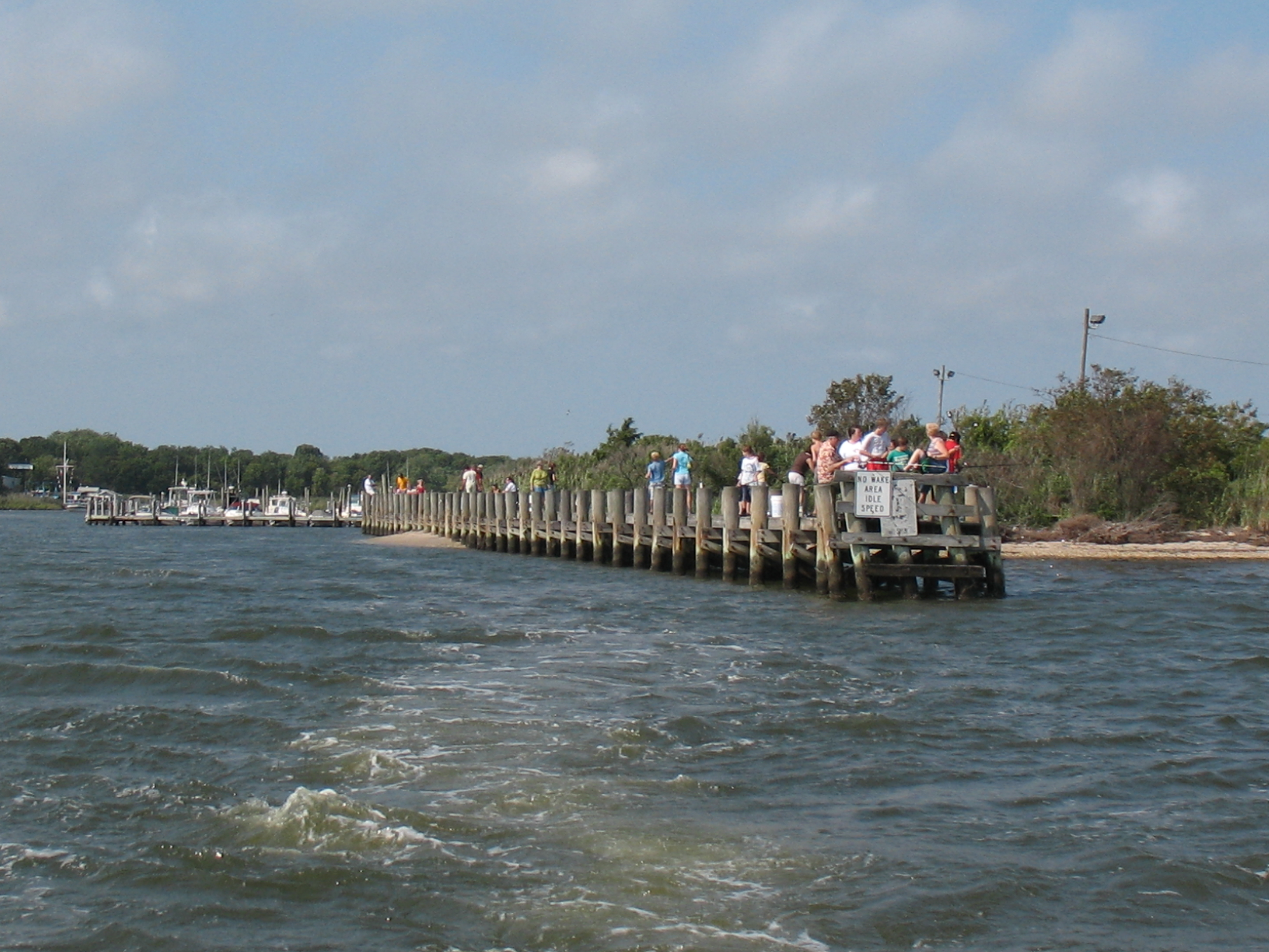 Swan River Inlet to Patchogue Bay and Pine Neck Pier ... Stevan